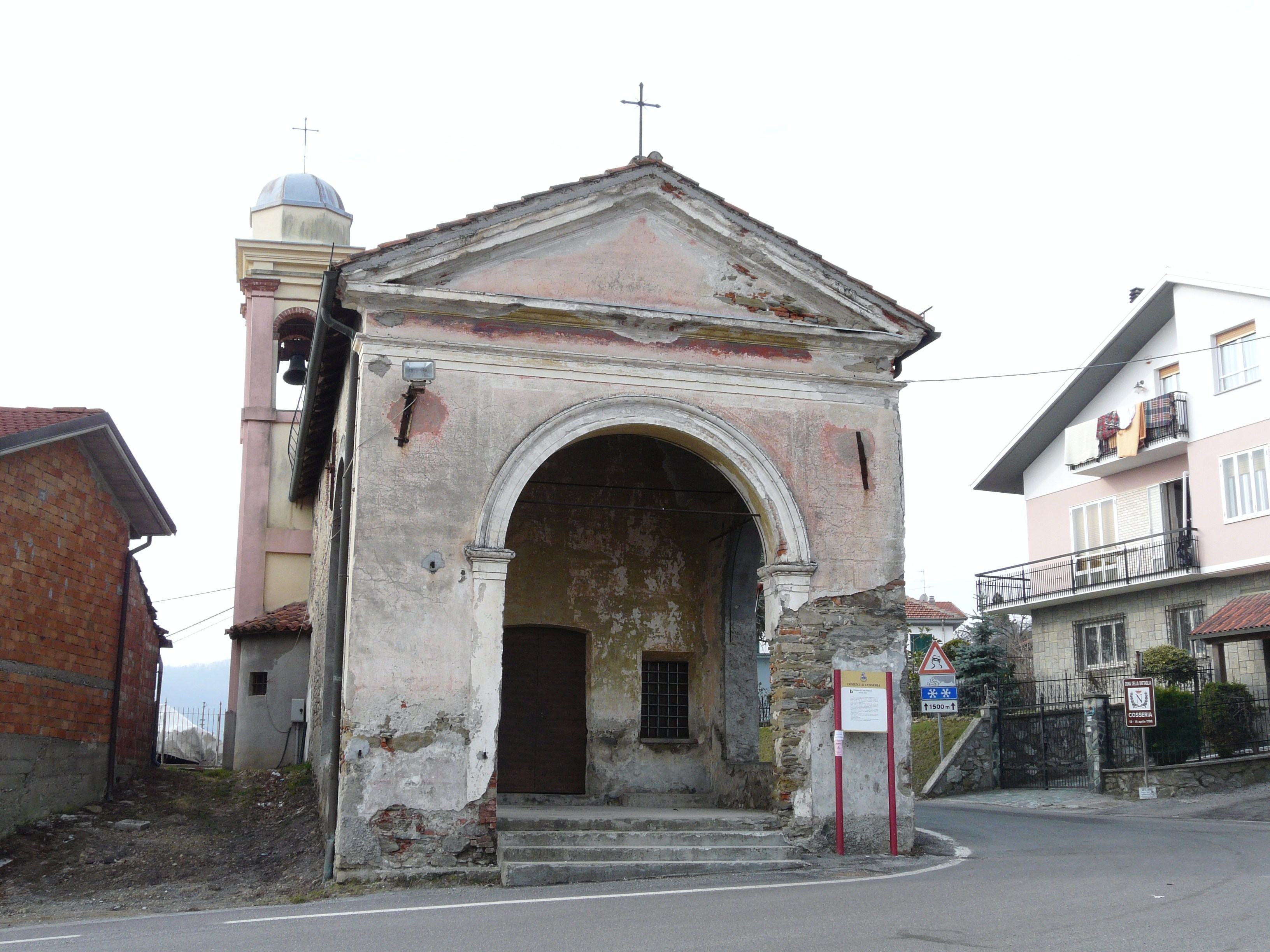 Church of San Rocco in Cosseria, Liguria